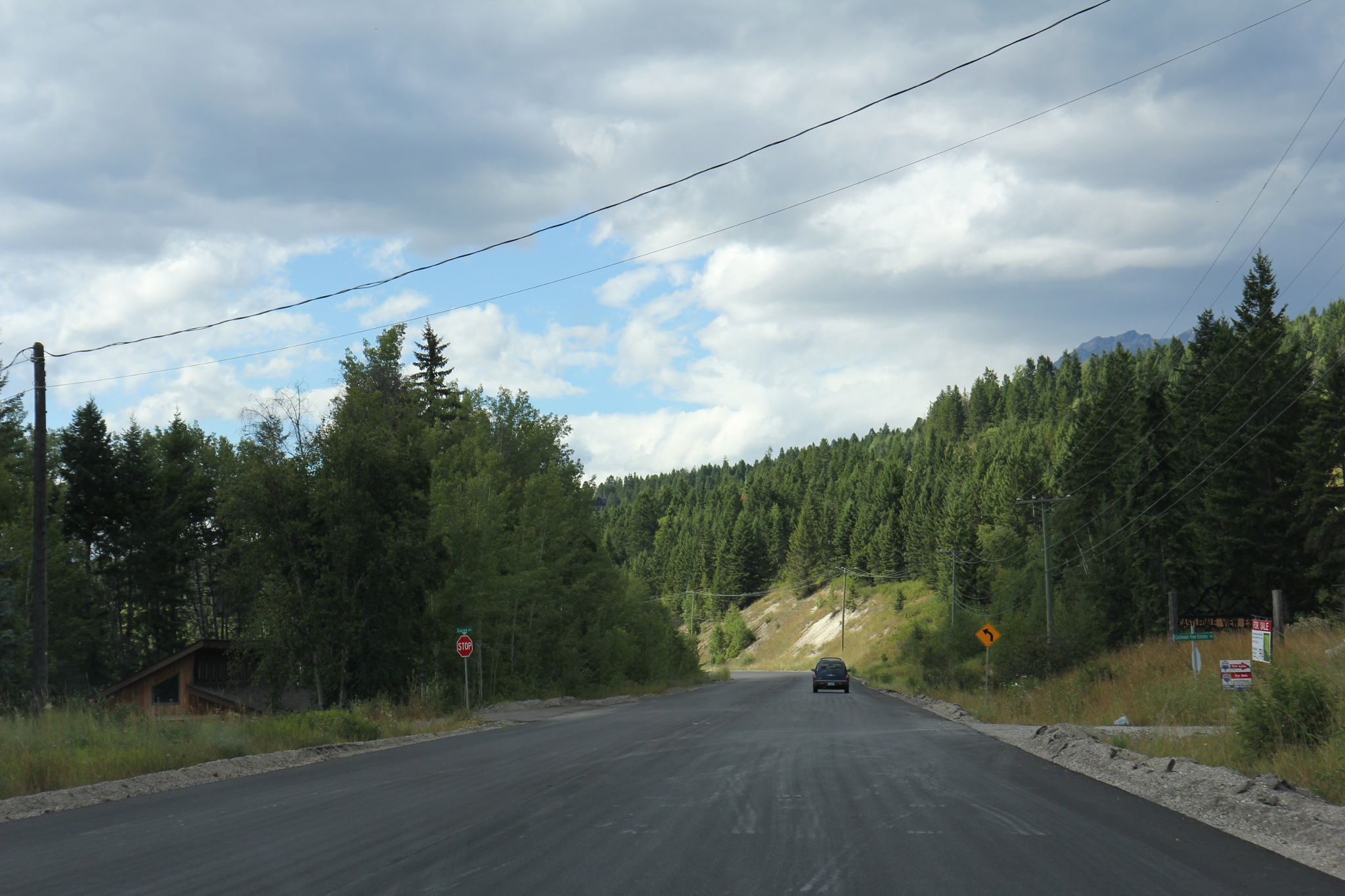 Road in Castledale, British Columbia on BC95.